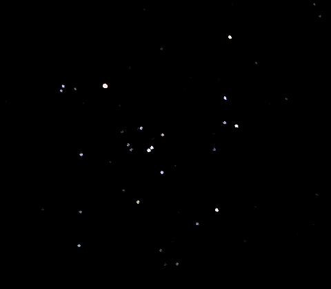 hyades.png -- Hyades Star Cluster, derived by myself from photo of constellation of Taurus by jpstanley